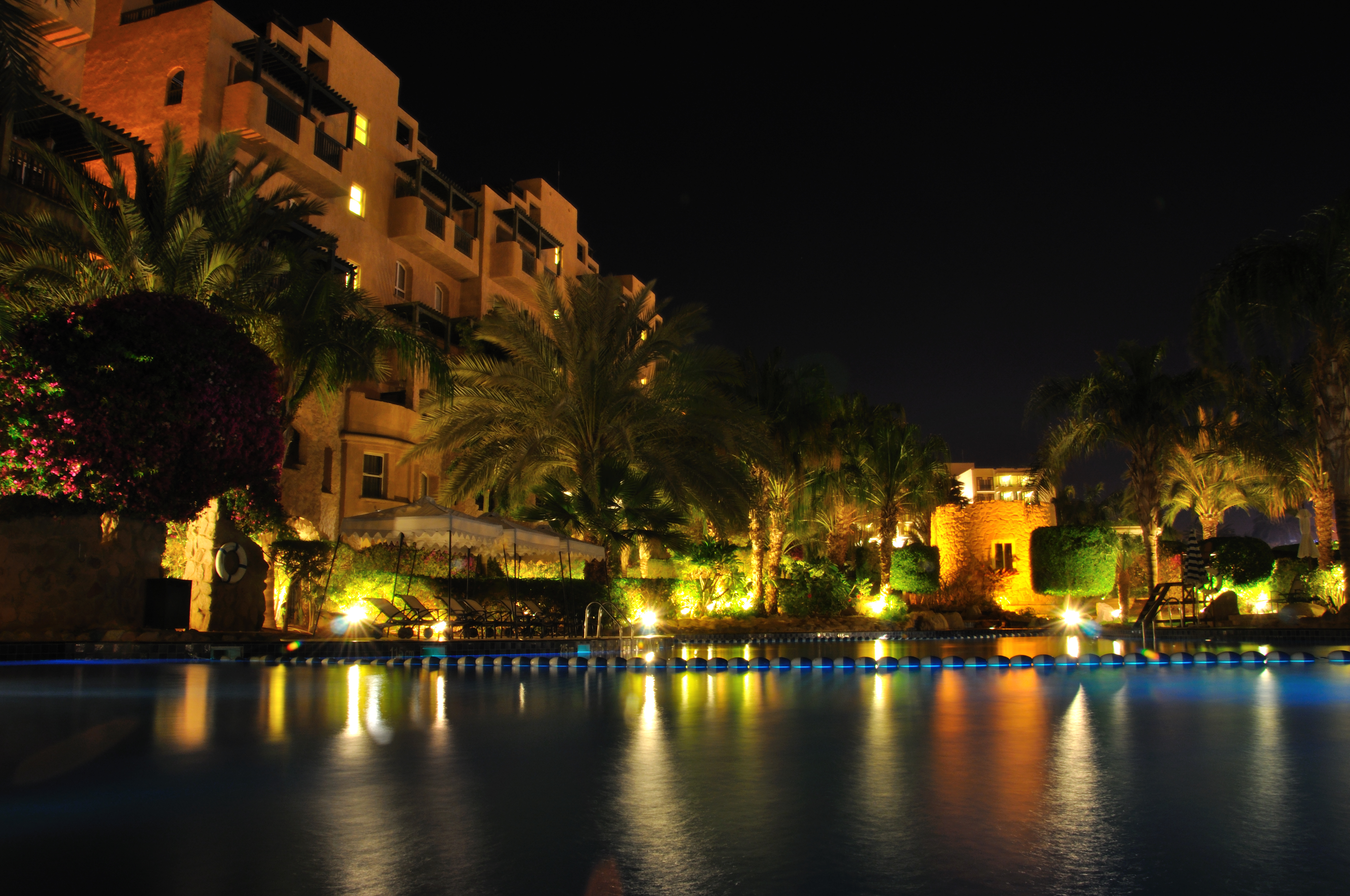 Fantastic lighting at night time at the Mövenpick resort in Aqaba.- Not the worst place to stay for work:-)